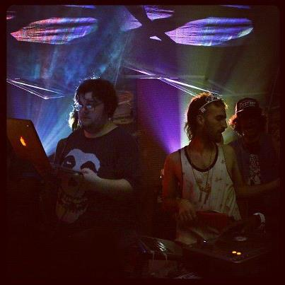 rec center in oakland